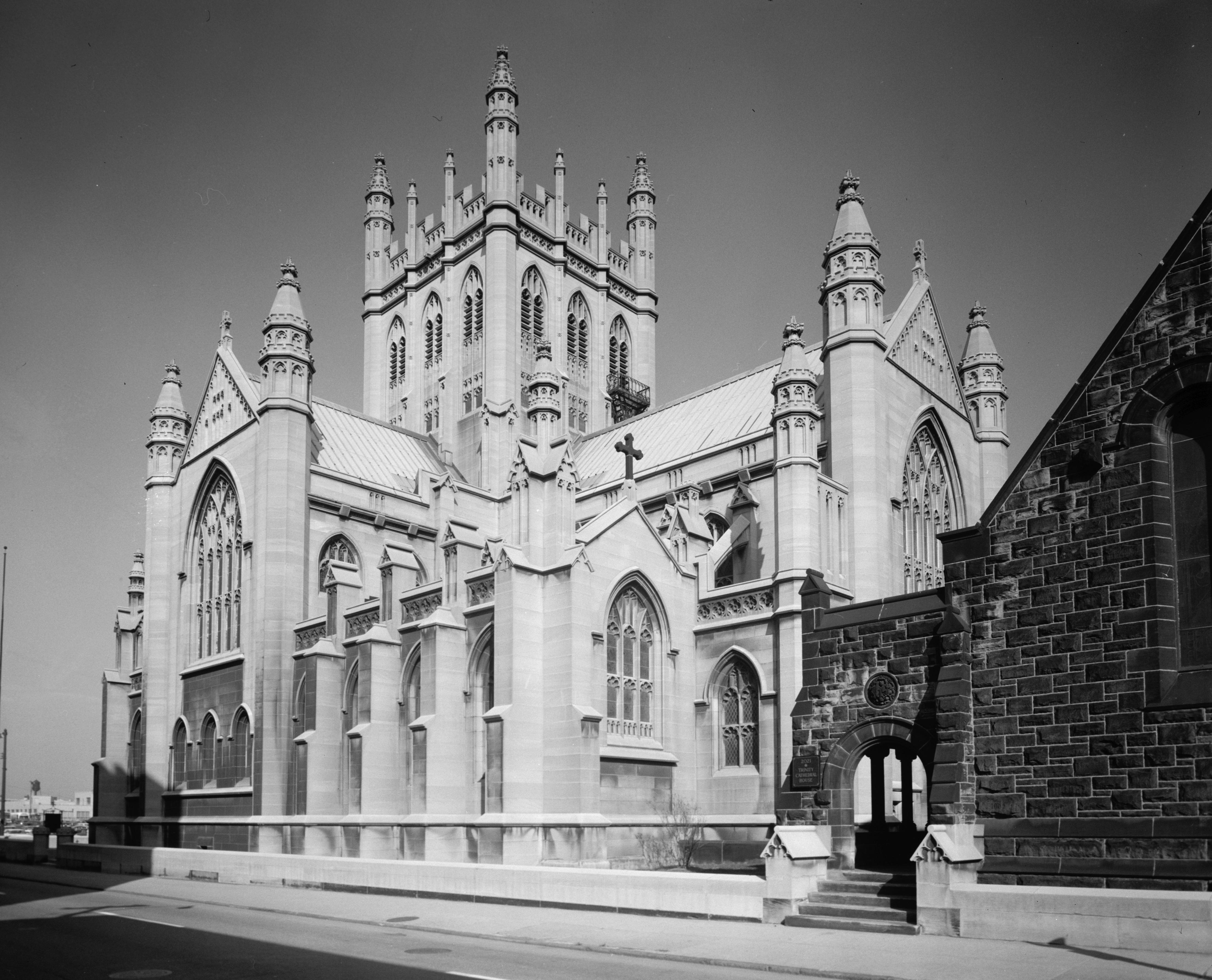 Side and rear of Trinity Episcopal Cathedral, located at the intersection of Euclid Avenue and E. 22nd Street in Cleveland, Ohio, United States. Built in 1901, it is listed on the National Register of Historic Places.